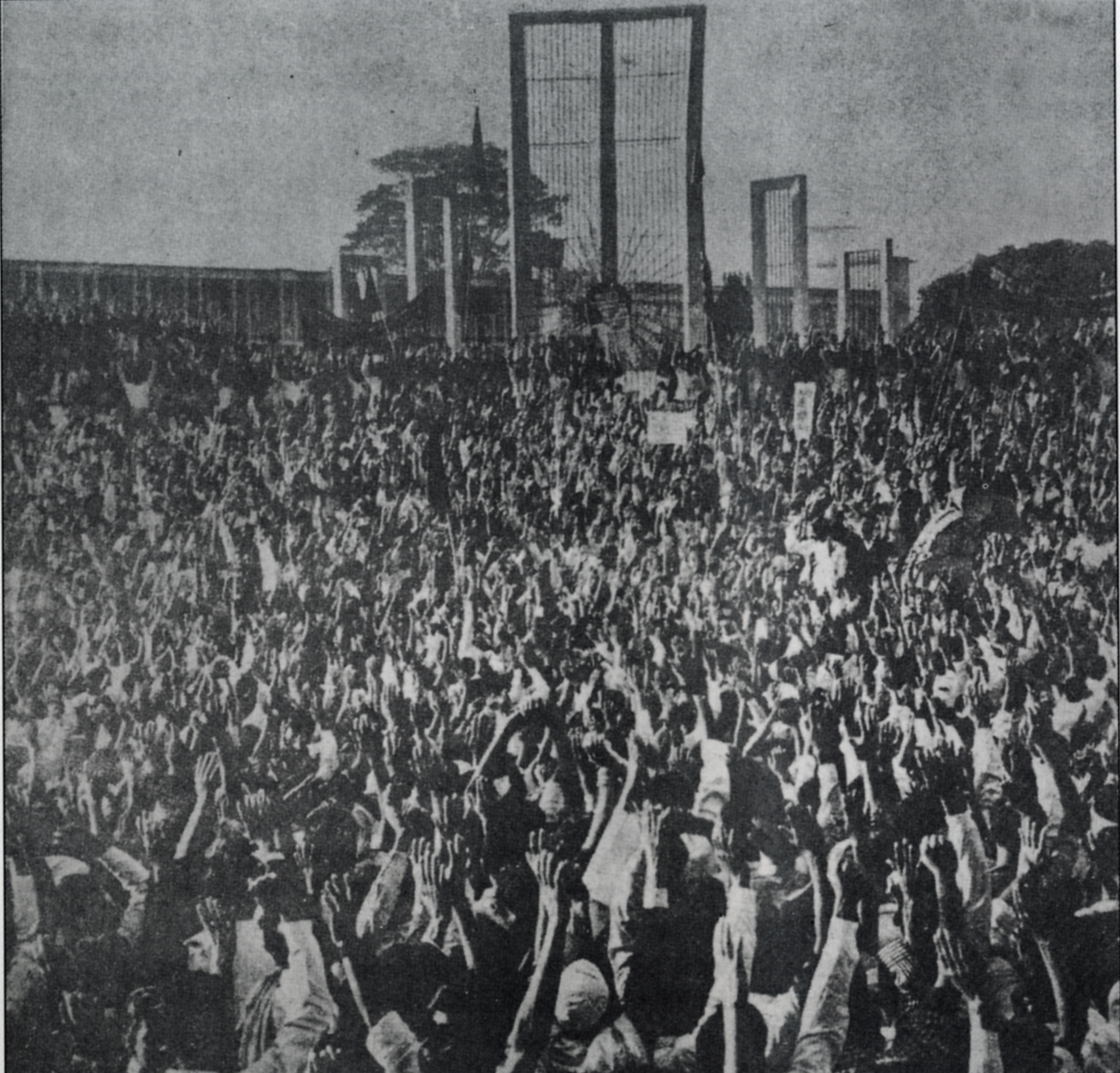 The second Shaheed Minar (martyrs' monument) completed in 1963.